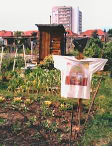 A wikipedians plot in Essex, England! Photo by Graham Burnett, quercus robur 13:48, 16 October 2005 (UTC)